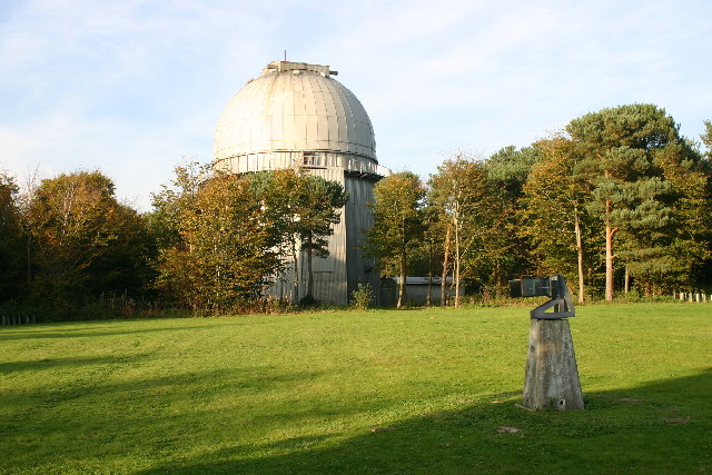 Herstmonceux trig with Isaac Newton telescope. The telescope has been removed to La Palma in the Canary Islands